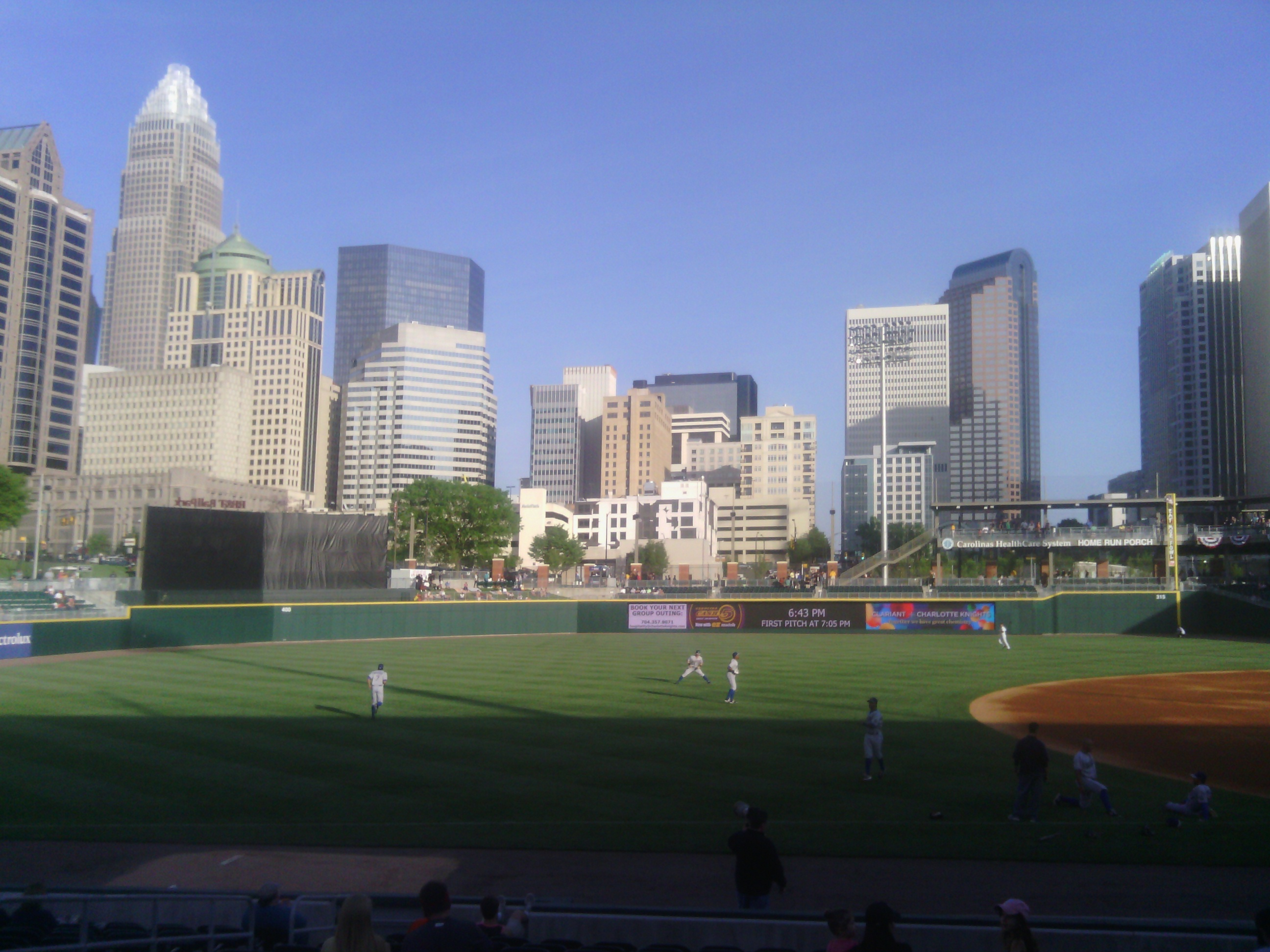 The Charlotte center city skyline, viewed from left field at BB&T Ballpark.